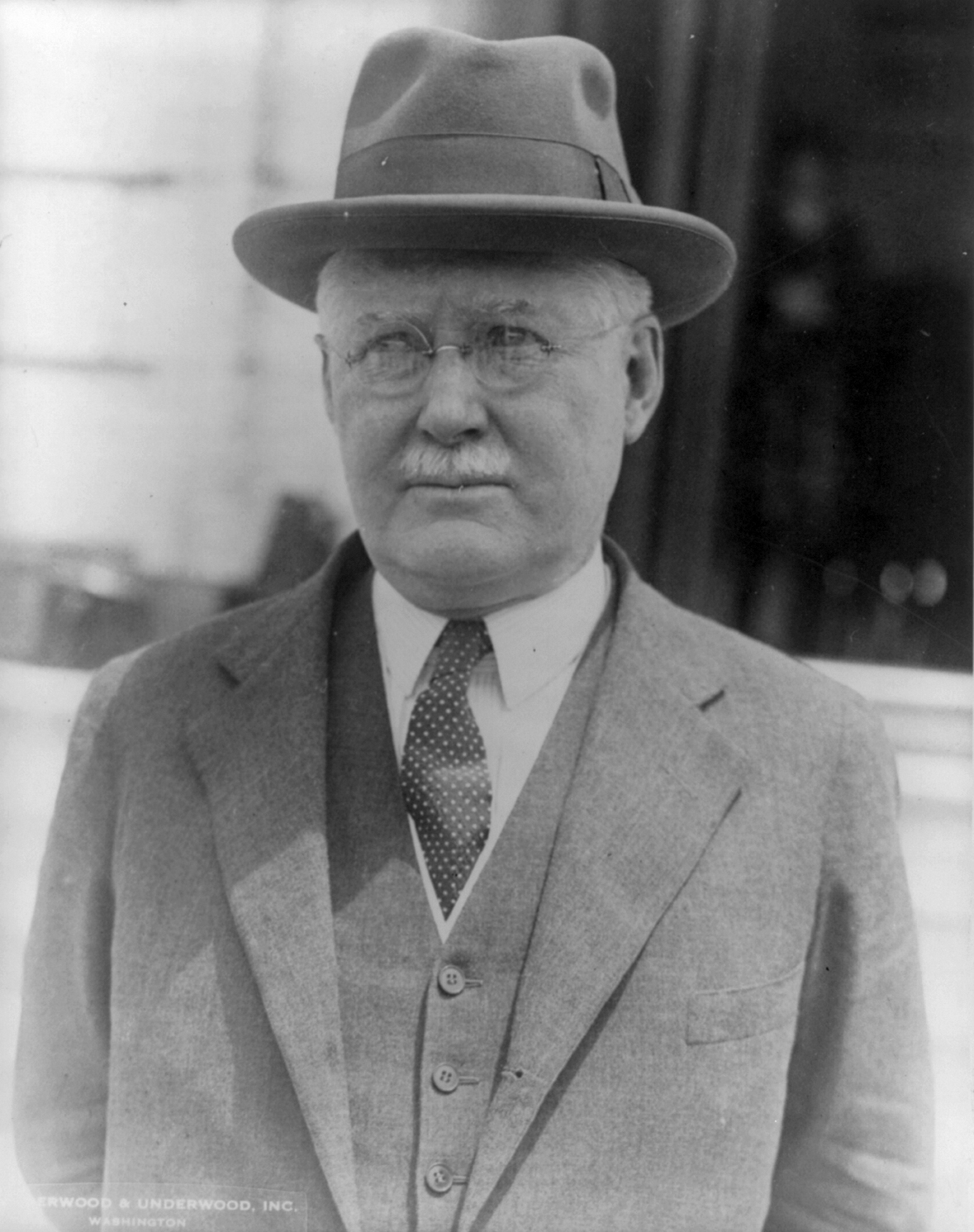 Joseph R. Grundy, head-and-shoulders portrait, facing left